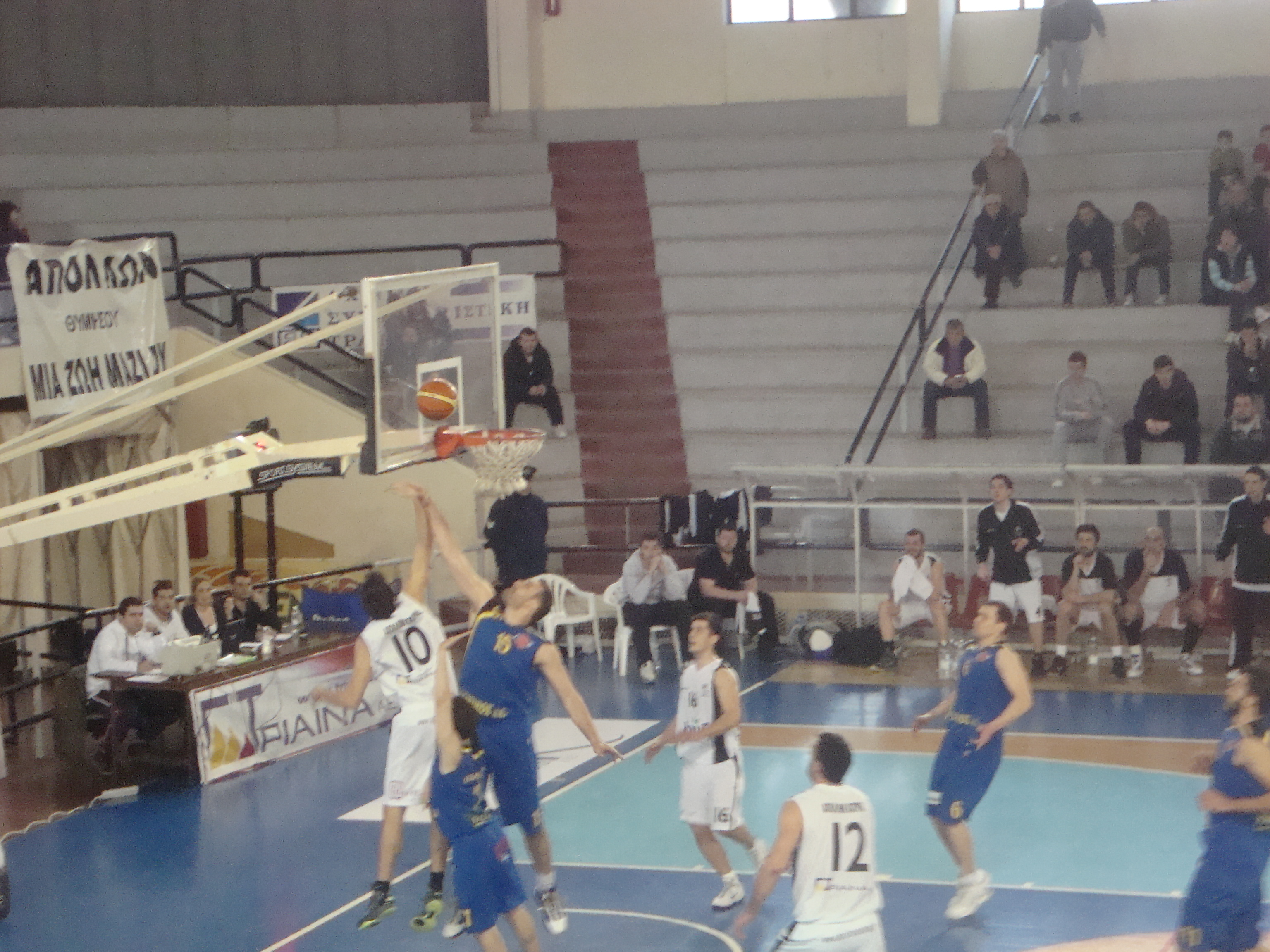 Apollon Patras(white) - Ikaroi Serron(blue) A2 national Greek Division, 2010-2011